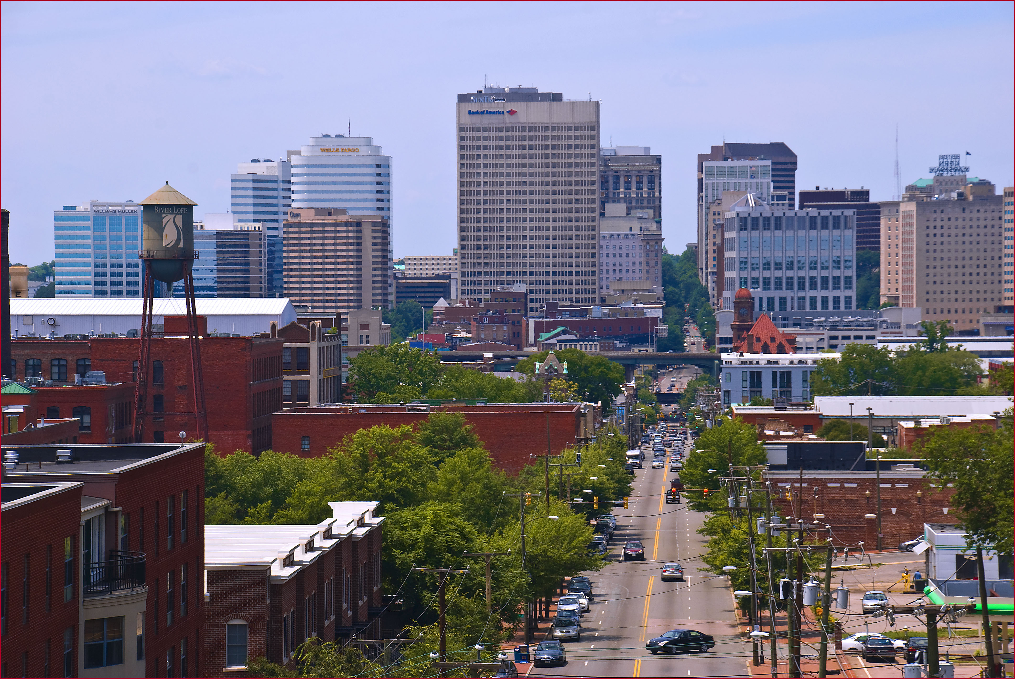 Downtown Richmond, Virginia looking west down Main Street from Libby Hill Park. "Image by Ron Cogswell on Saturday June 9, 2012, using a Nikon D80 and minor Photoshop effects. DSC_0188 V2" - Caption from original at Flickr